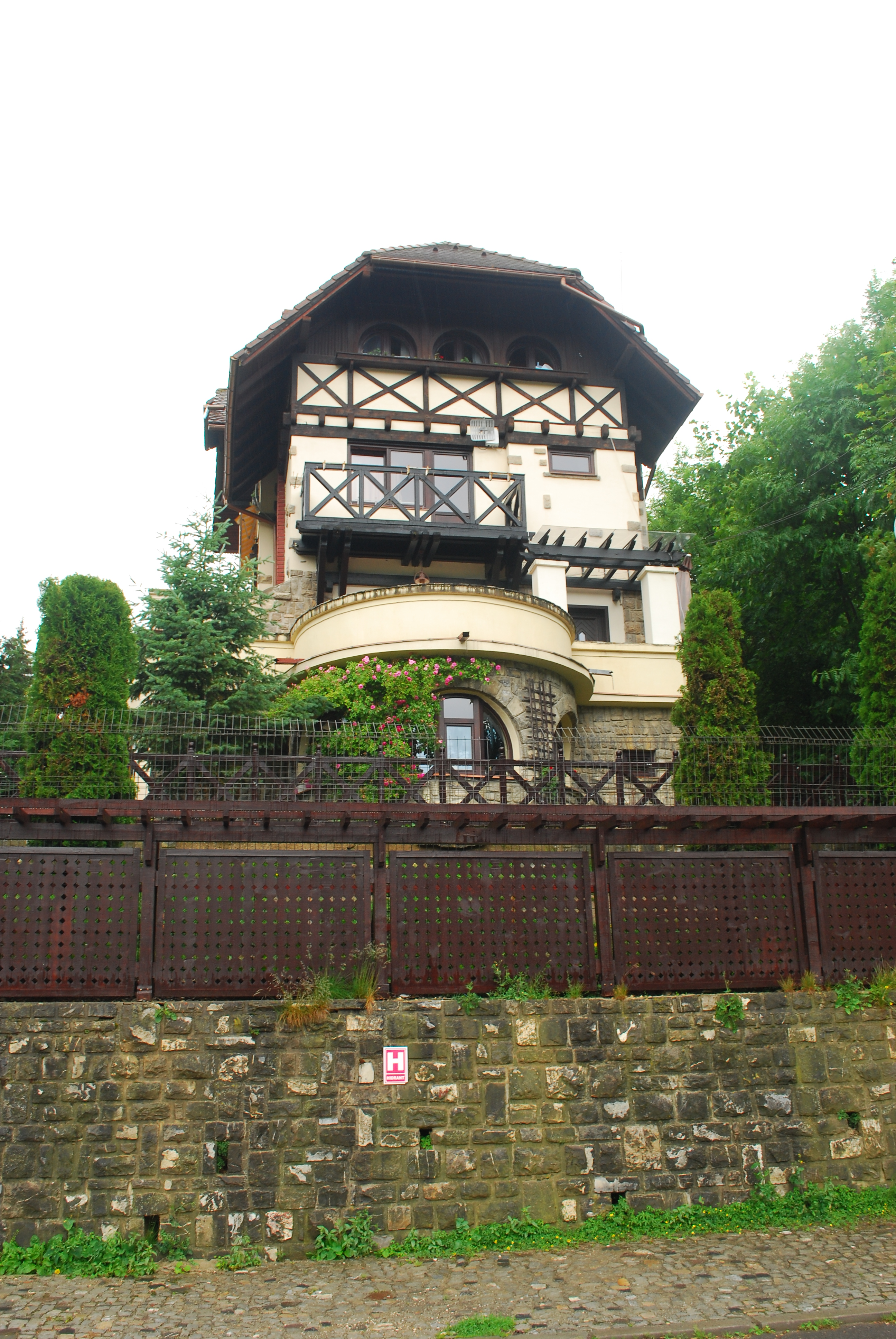 Nicolae Angelescu villa ("Stejarul" villa) in Sinaia, Prahova County, Romania